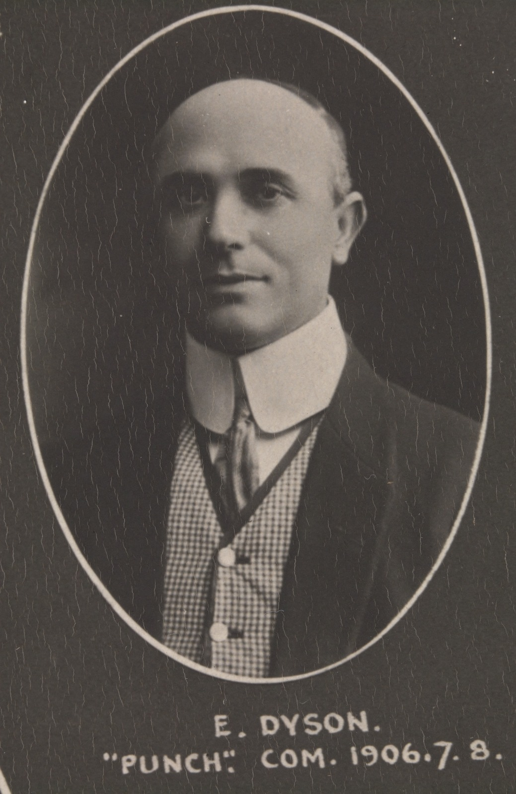 Australian poet Edward George 'Ted' DYSON (1865-1931), taken 1908. Digitised by the State Library of Victoria, Australia as part of Imaging 19th Century Victoria Digitising Project.;Other information